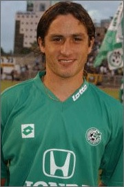 Gijermo-Yisraelevitch גיז'רמו ישראלביץ'